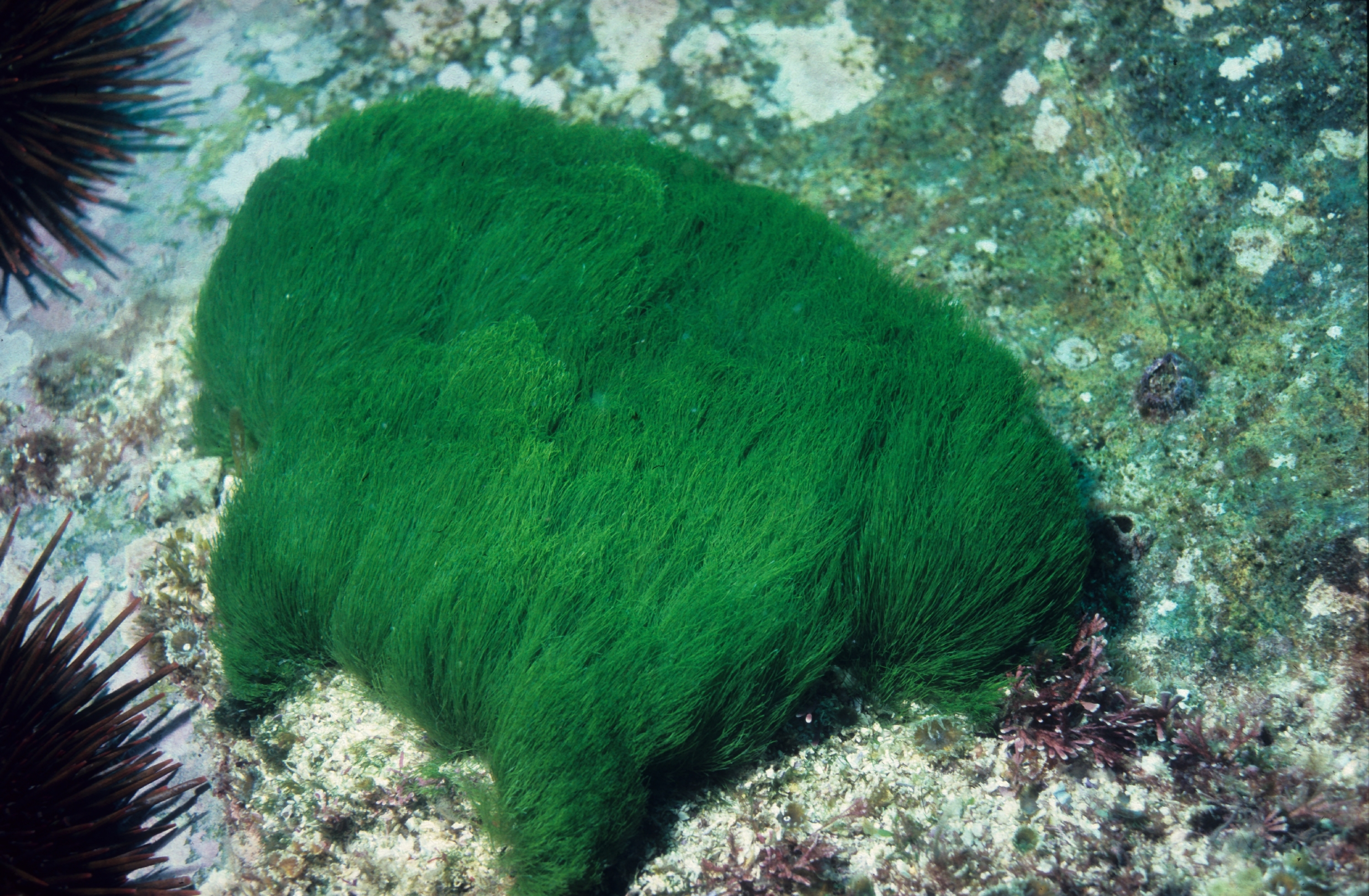 Turtle weed, Chlorodesmis fastigiata, at 6 meters depth